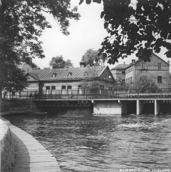 The power station in Skebäck, Örebro, Sweden